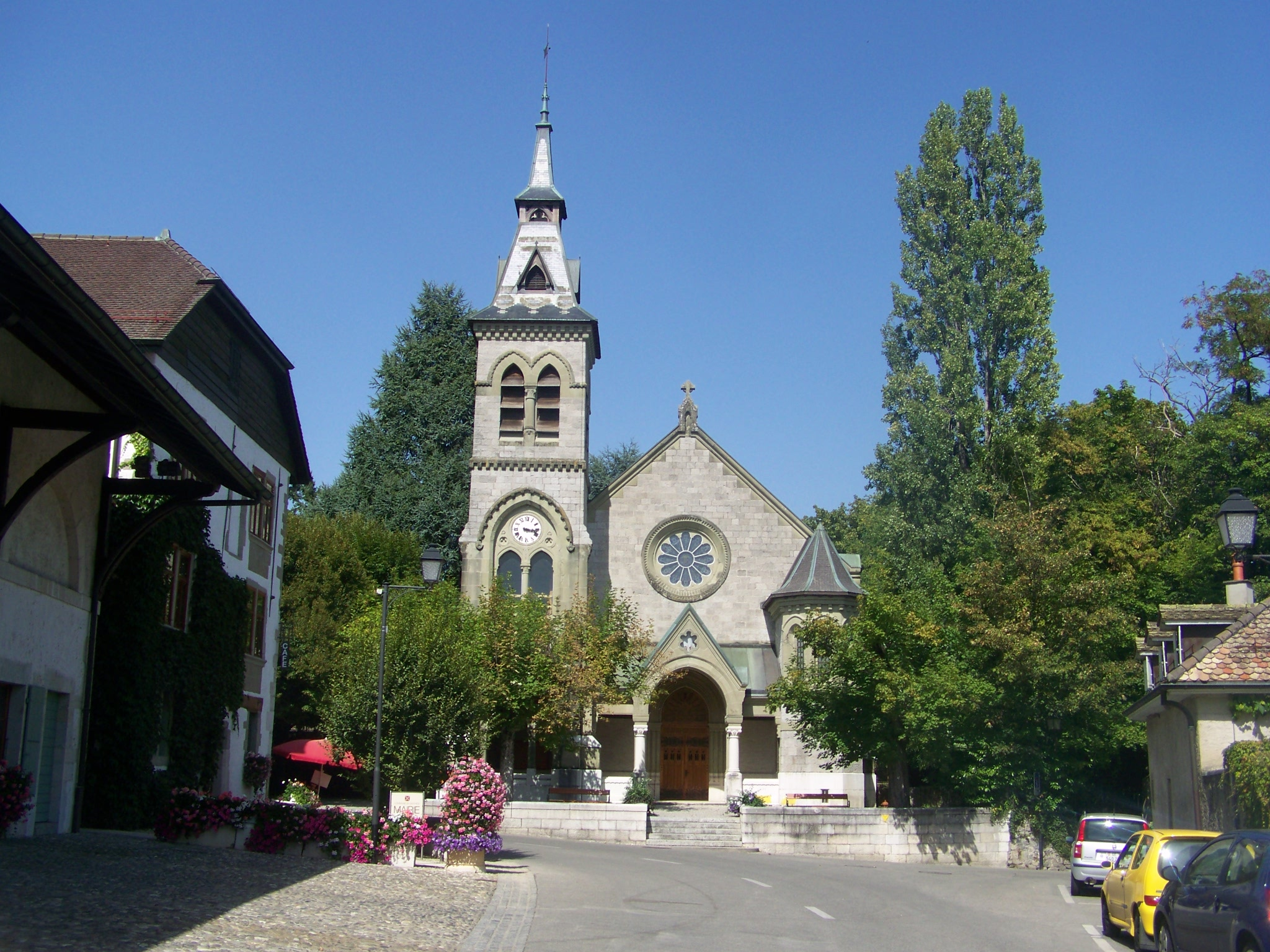 Village of Genthod center, with city hall on the left, near Geneva, in Switzerland.